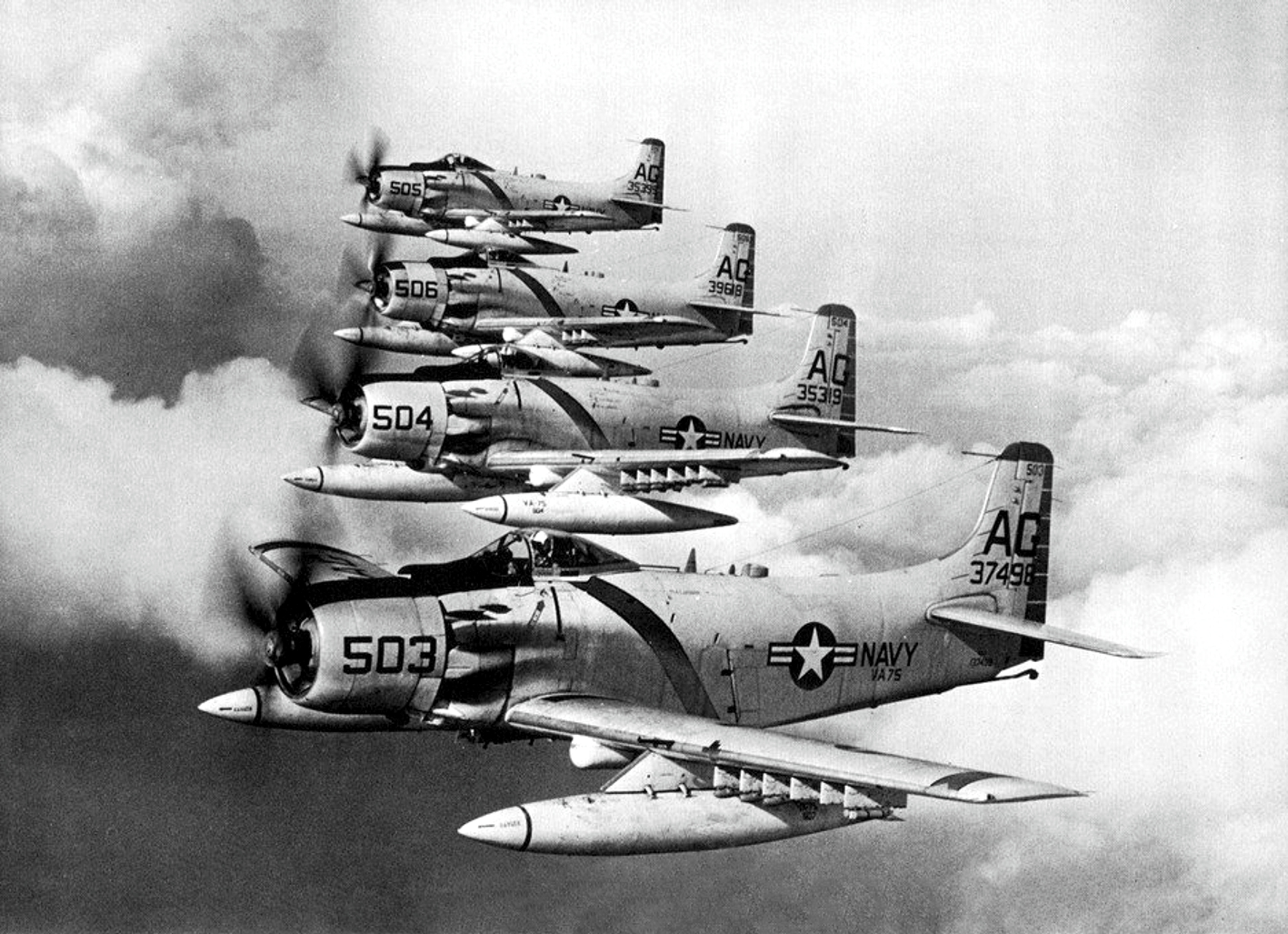 Four U.S. Navy Douglas AD-6 Skyraider aircraft from attack squadron VA-75 Sunday Punchers in flight. VA-75 was assigned to Carrier Air Group 7 (CVG-7) and made four deployments to the Mediterranean Sea between 1957 and 1962: one aboard the aircraft carrier USS Randolph (CVA-15) in 1958/59, and three aboard the USS Independence (CVA-62). Thereafter VA-75 was the first operational squadron that converted to the Grumman A-6A Intruder.